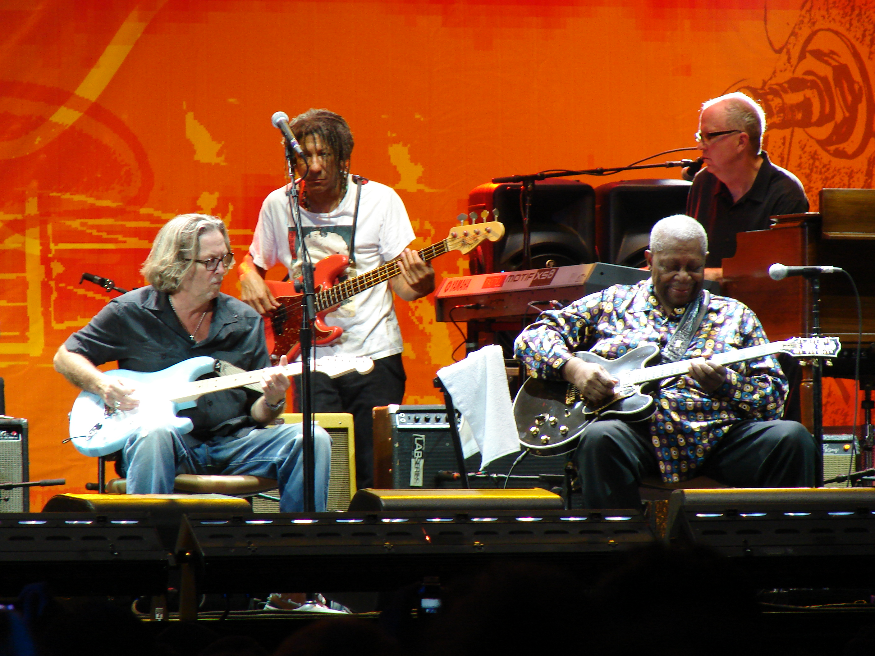 The thrill is not gone yet!